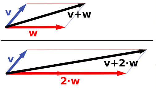 Vector addition and scaling